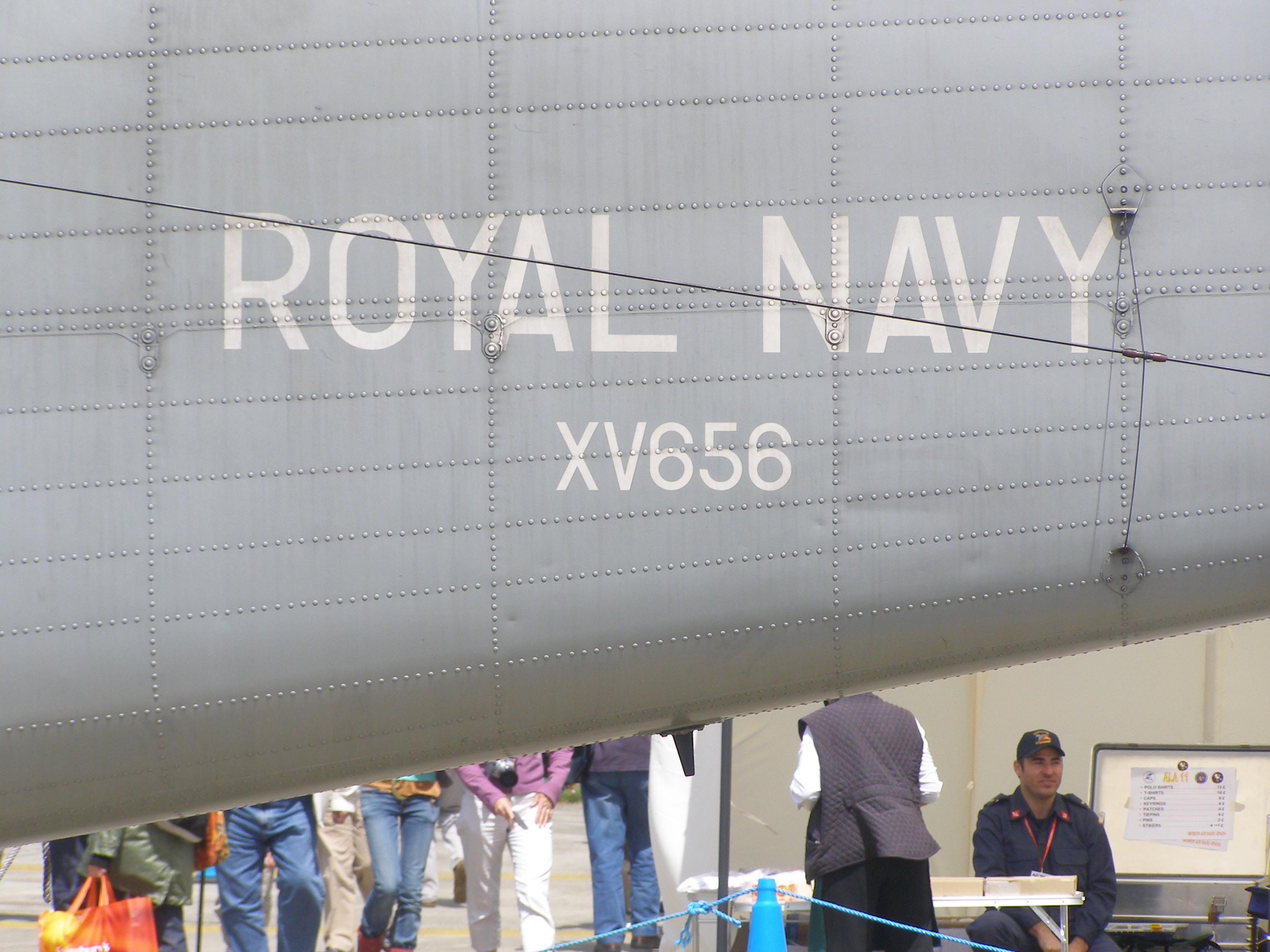 Royal Navy Westland Sea King at RAF Fairford (showing serial XV656)